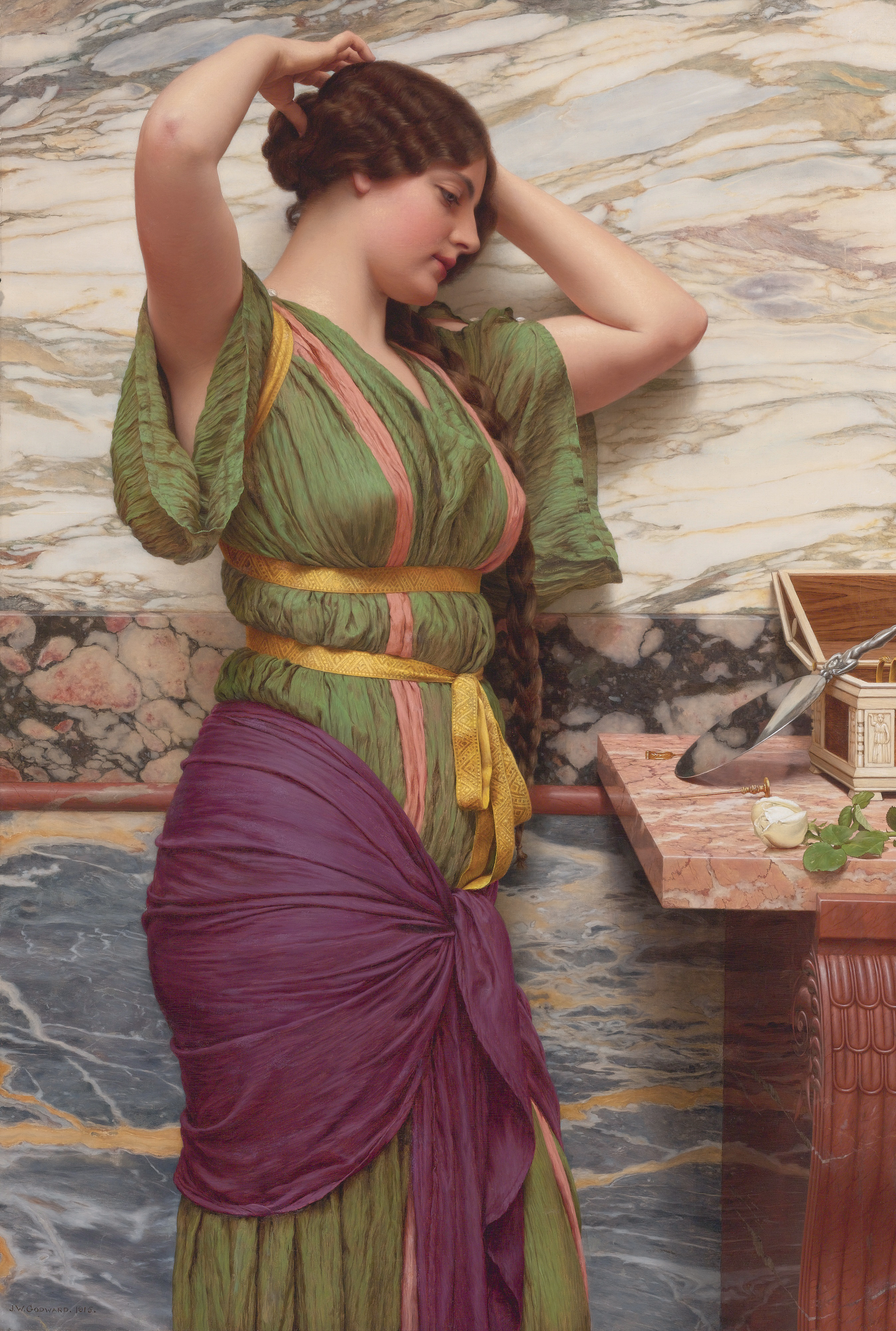 A Fair Reflection